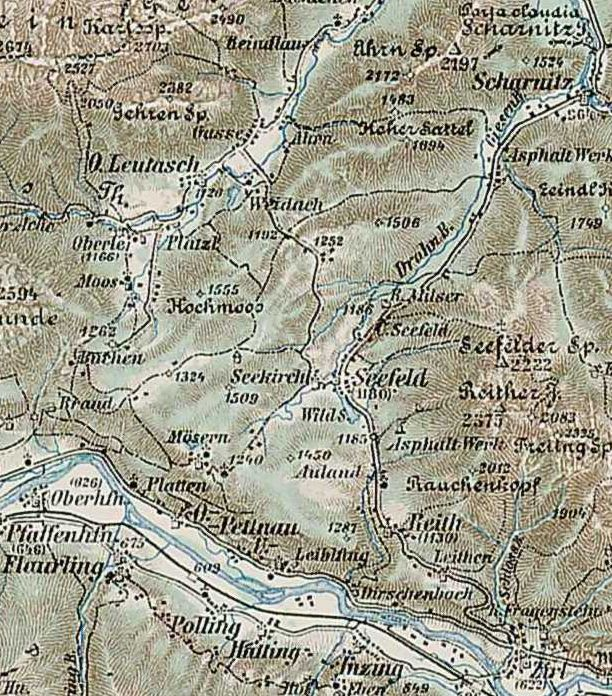 3rd Military Mapping Survey of Austria-Hungary - Innsbruck; detail: Seefelder Plateau